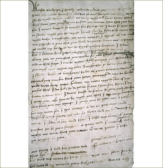 Letter from Catherine Howard to Thomas Culpepper